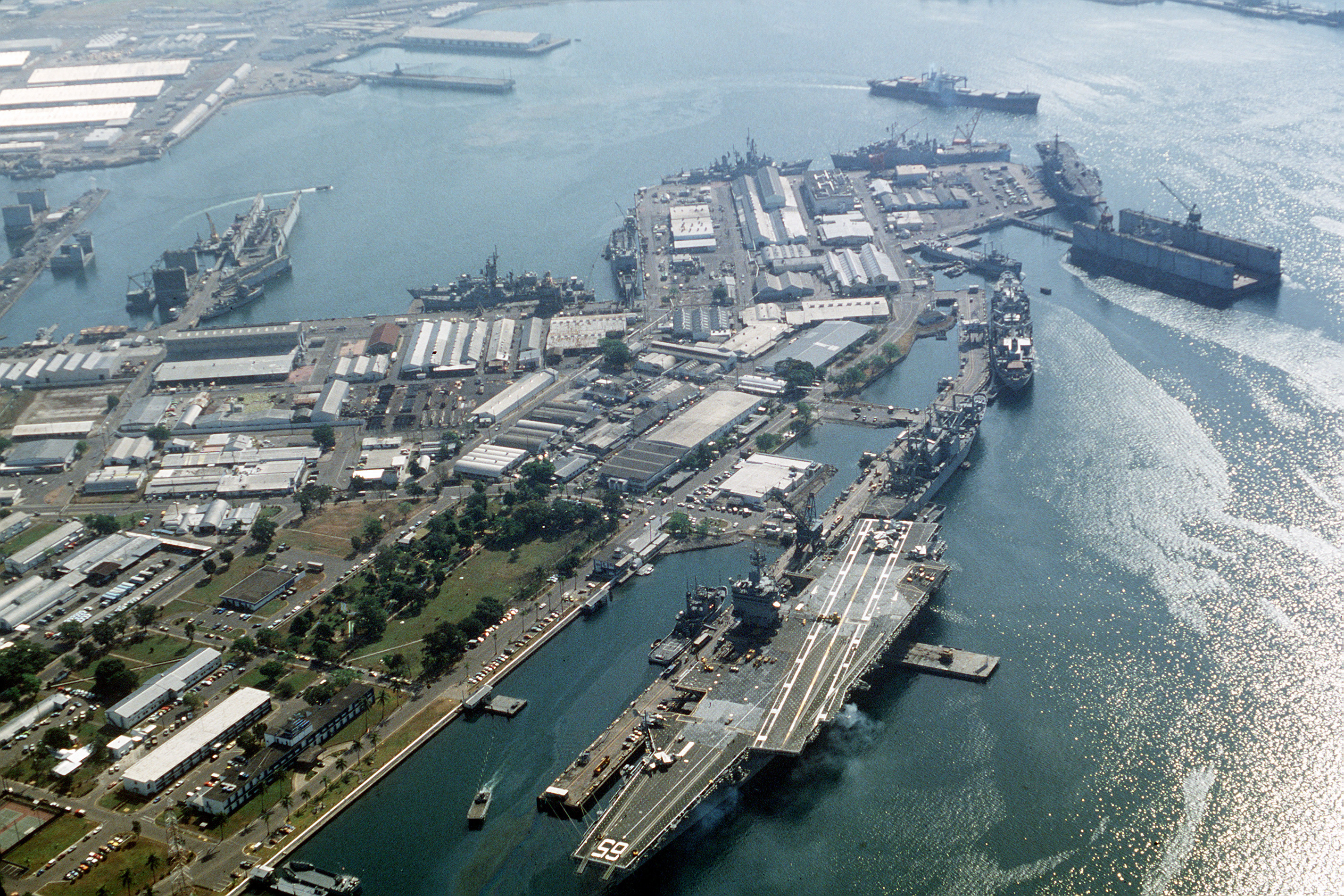 An aerial view of ships moored at the station. The nuclear-powered aircraft carrier USS ENTERPRISE (CVN-65) is in the foreground. Location: NAVAL STATION, SUBIC BAY, LUZON PHILIPPINES (PHL)